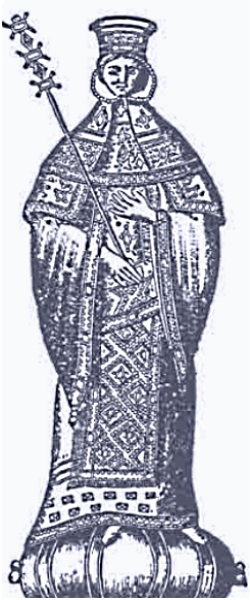 Theodora, wife of Michael VIII, Byzantine Empress